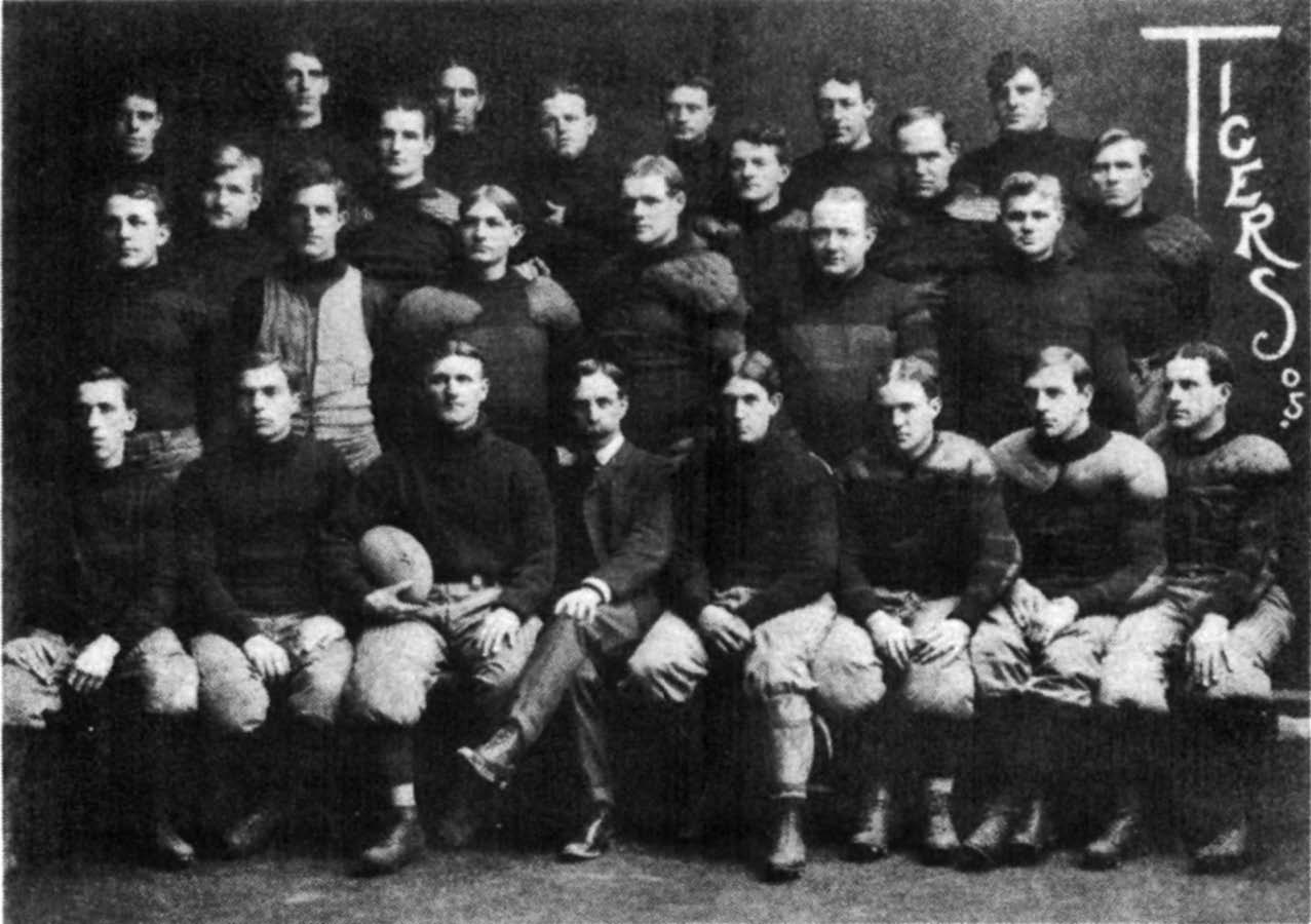 A 1905 photograph of the Massillon Tigers team, folded in 1923.